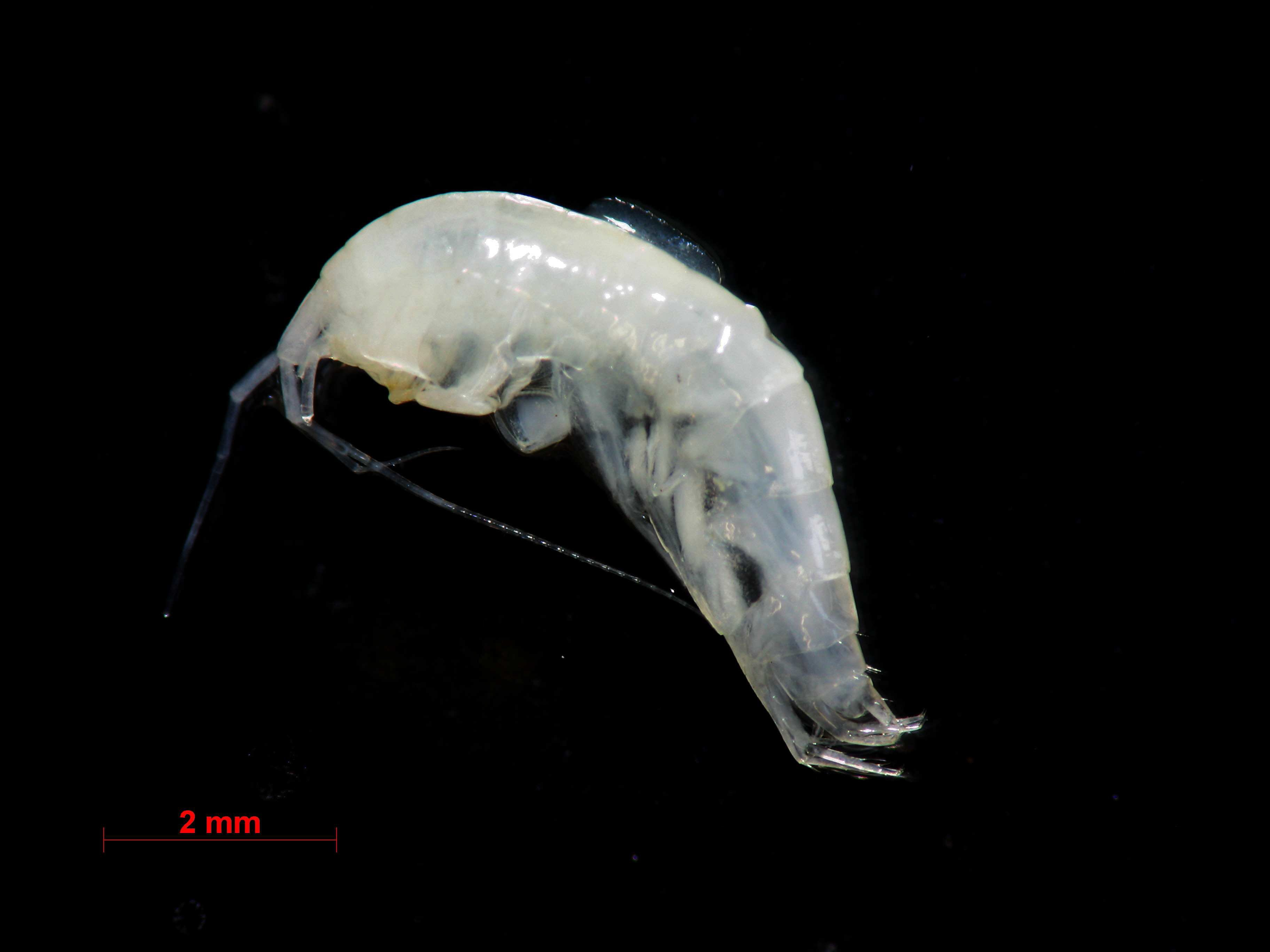 Niphargus ictus Cave ecosystem of Frasassi, Italy